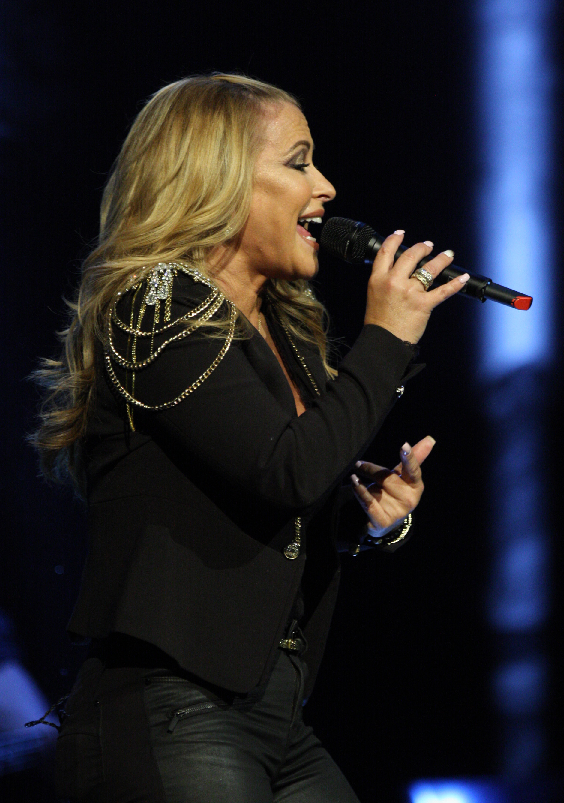 Anastacia performing at The Star Event Center in Sydney